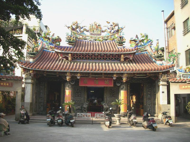 Chenghuang Temple, South District, Taichung.中文（台灣）: 位在台中市南區合作街上的台中城隍廟。